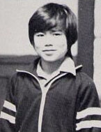 Joichi "Joi" Ito circa 1981